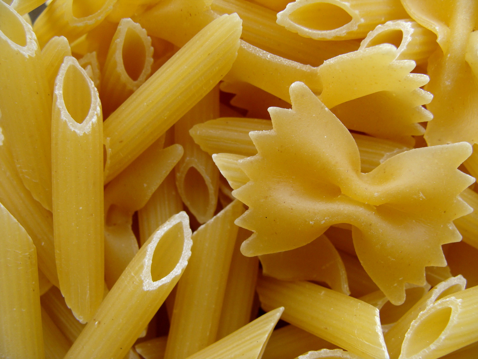 pasta close up